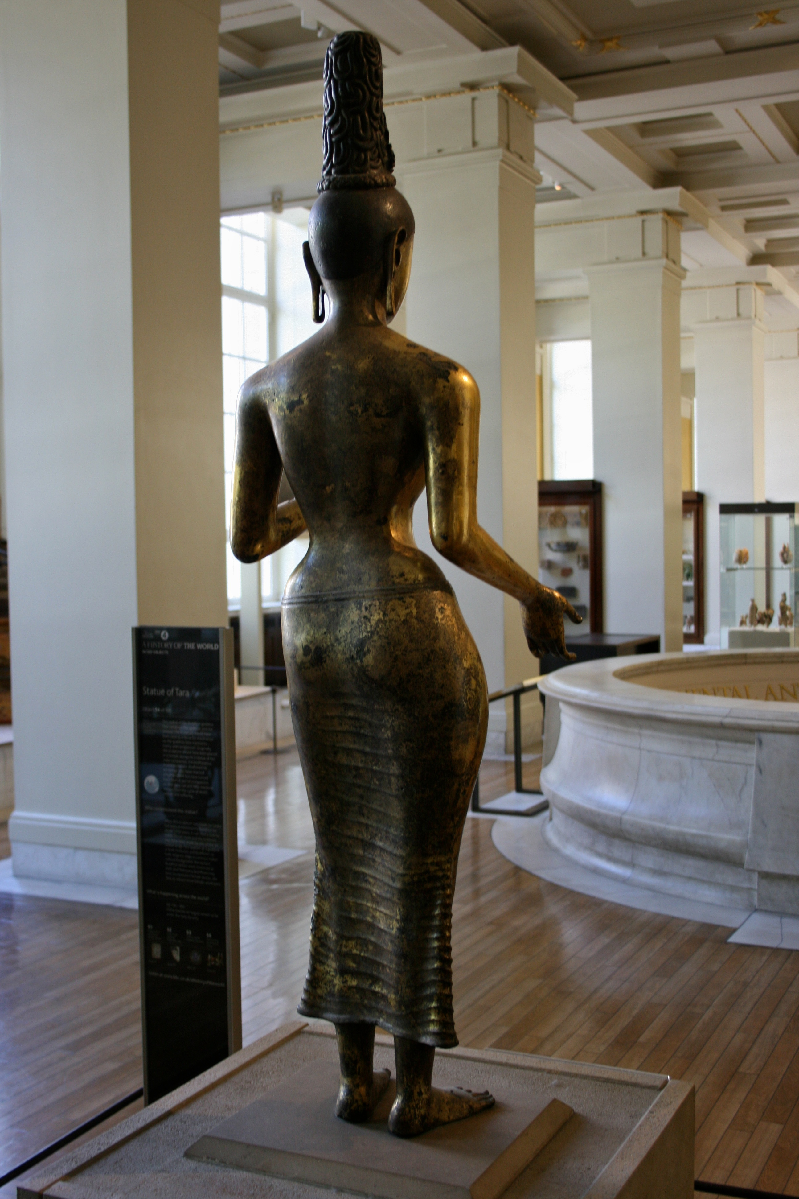 Statue of Tara. Object 54 of 100. Gilded bronze, Sri Lanka, 8th century AD. OA 1830.6-12.4. In the British Museum.